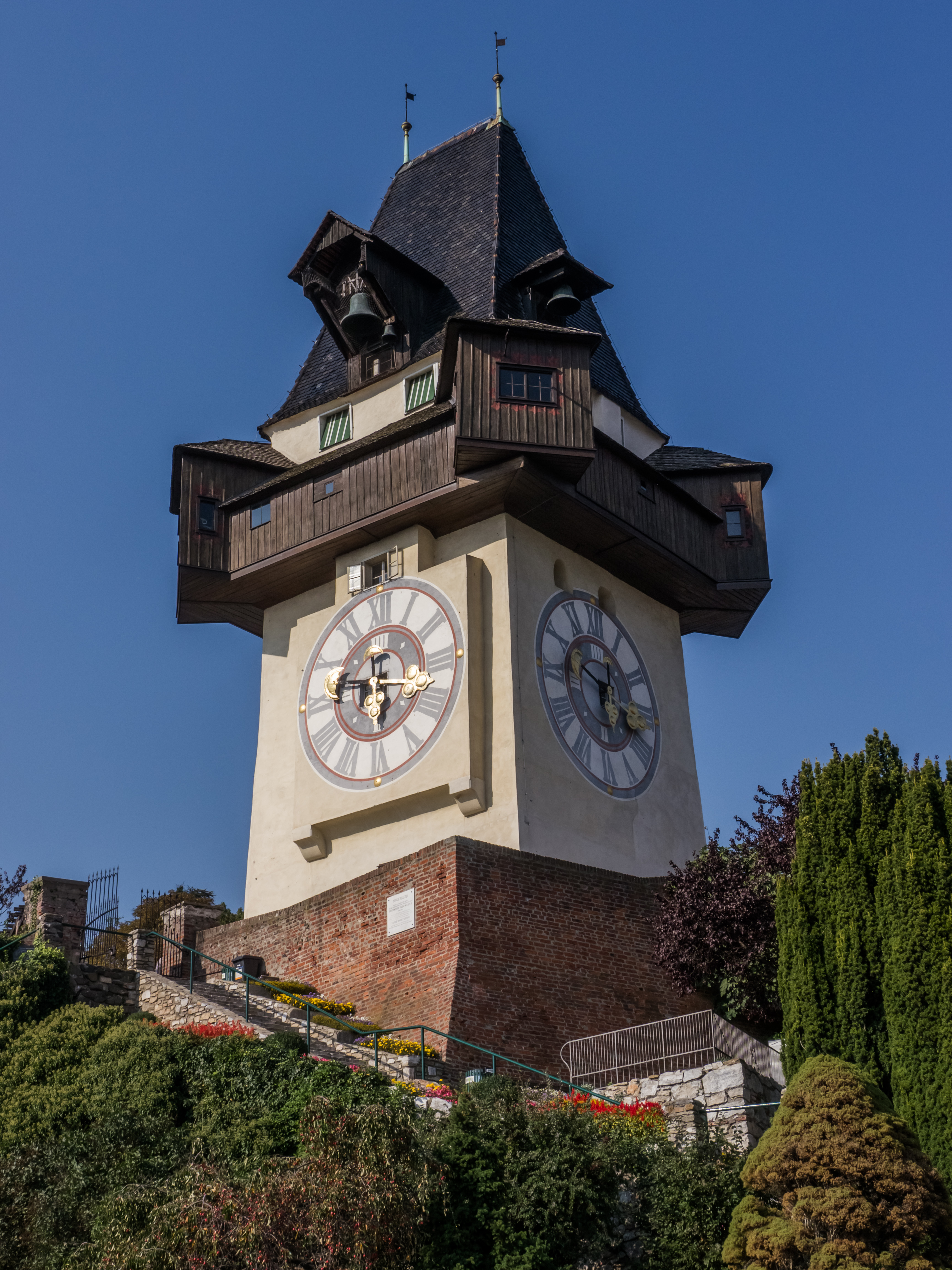 The Graz clock tower